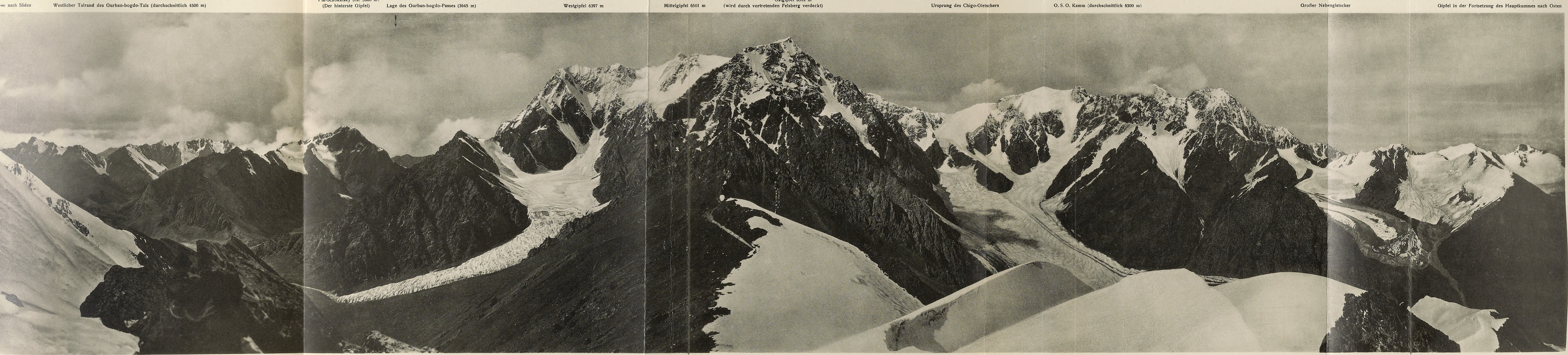 Title: Abhandlungen der Königlich Bayerischen Akademie der Wissenschaften, Mathematisch-physikalische Klasse Year: 1912 (1910s) Authors: Königlich Bayerische Akademie der Wissenschaften. Mathematisch-Physikalische Klasse Subjects: Science Publisher: München, Verlag der Bayerischen Akademie der Wissenschaften in Kommission bei der C. H. Beck'schen Verlagsbuchhandlung Text Appearing Before Image: ' nach Sßden Westlicher Talrand des Ourban-bogdo-Tals (durchschnittlich 4500 m) Pik-SchokaUky (ca. 5600 m) (Der hinterste Gipfel) Lage des Ourban-bogdo-Passes (3645 m) Westgipfei 6397 m Zentrale Gruppe der höchsten Gipfel Ostgipfel 6512 m Mittelgipfel 6501 m (wird durch vortretenden Felsberg verdeckt) Ursprung des Chigo-Gletschers O. S. O. Kamm (durchschnittlich 6300 ml Großer Nebengletscher Taf. 3 Gipfel in der Fortsetzung des Hauptkainmes nach Osten Text Appearing After Image: Süd-Oletscher Im Vordergrund die Gipfel der Kette der Westumwallun g des Chigo-Tales O. Merzbacher phot. Panorama der centralen 5o9do«01a=Gruppc von Süden Aufgenommen auf einem Gipfel (4530 m) in der Westumvi^allung des Chigo*Gletschers